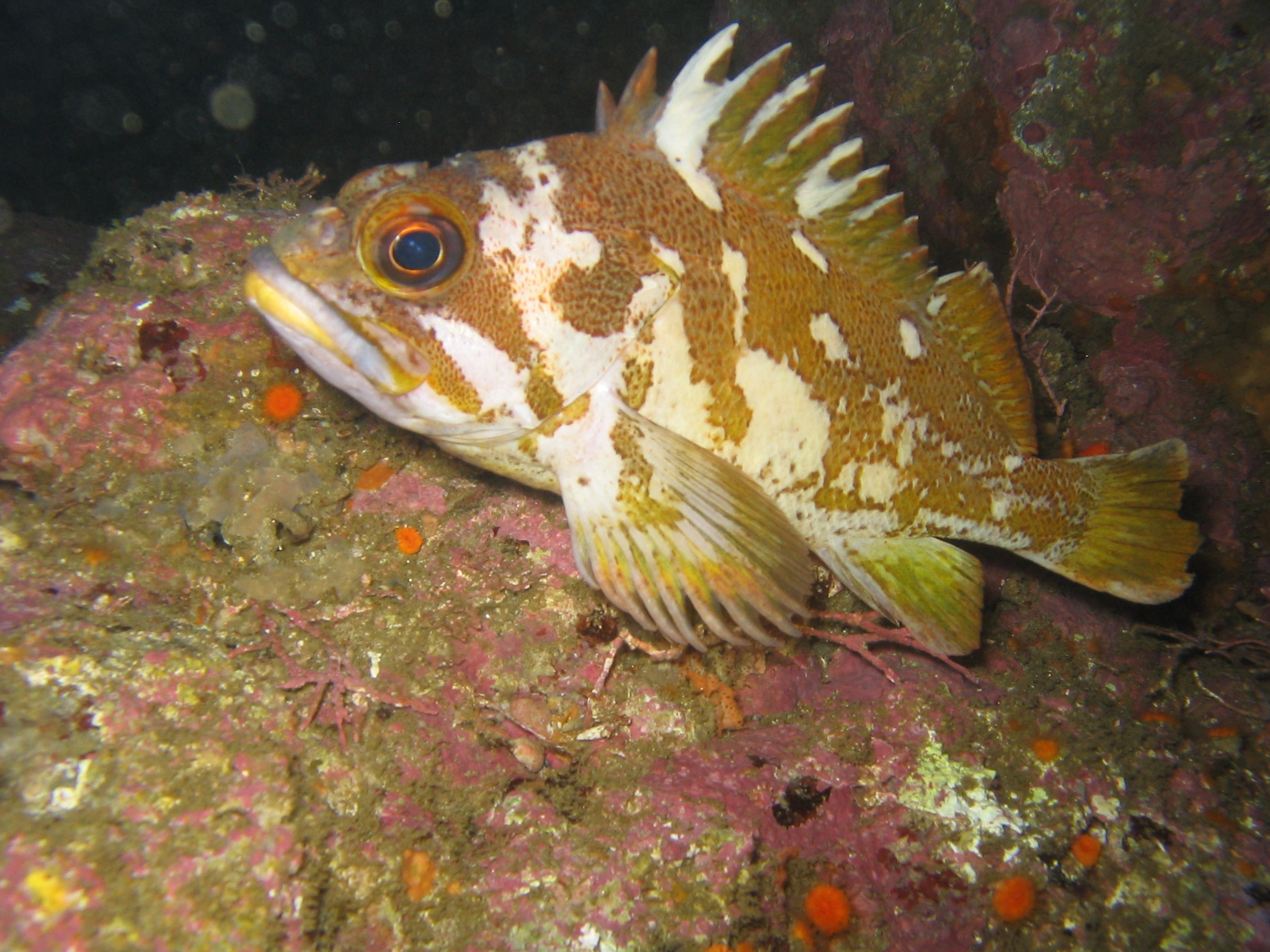 Gopher rockfish perched on rock. California, Point Lobos State Reserve. 2005 November 22.